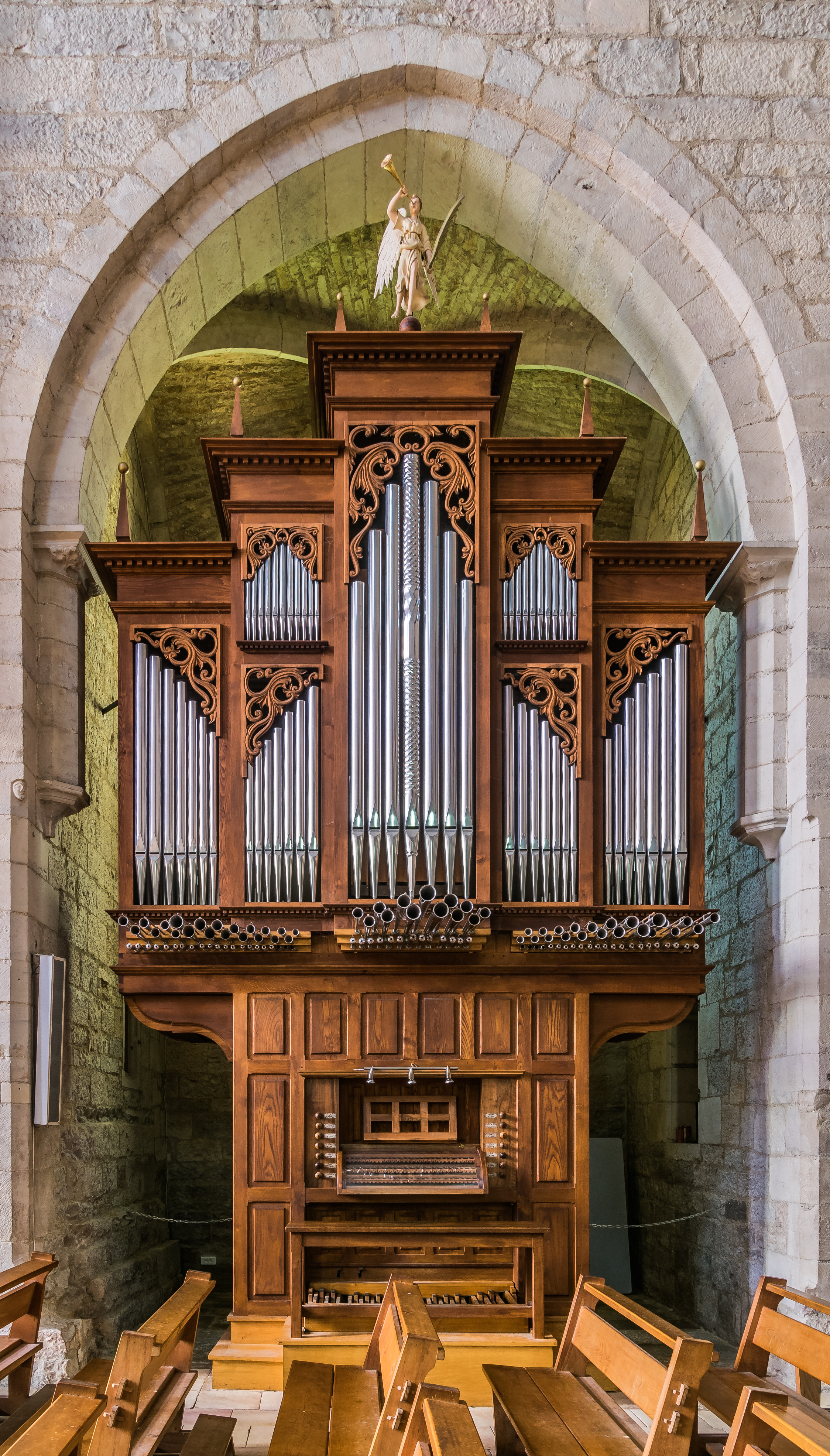 Organ in the church of the Holy Sepulchre of Villeneuve, Aveyron, France .